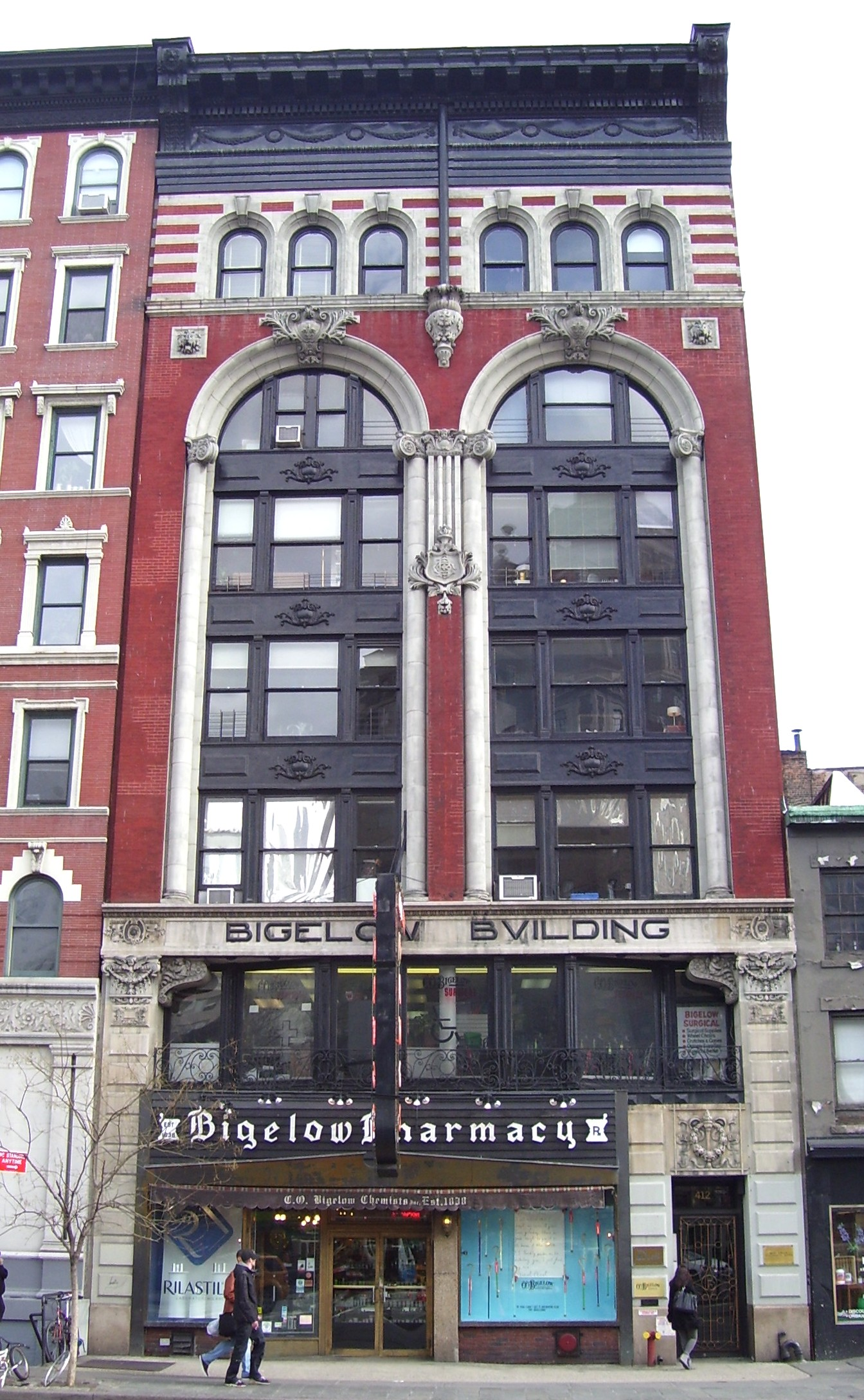 The Bigelow Building at 412 Sixth Avenue (Avenue of the Americas) between West 8th and West 9th Streets in the Greenwich Village neighborhood of Manhattan, New York City, was built in 1902 for Clarence O. Bigelow, and the Bigelow Pharmacy still occupies the ground floor. The loft building was designed by John E. Nitchie in a transitional style between Romaesque Revival and neo-Classical. (Source: AIA Guide to NYC (4th ed.))